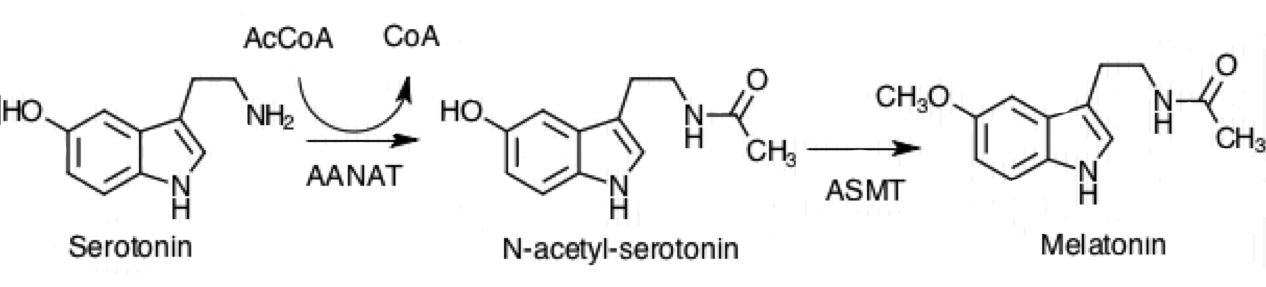 Synthesis of Melatonin from Serotonin through two enzymatic steps.